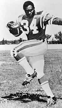 Public Domain image of George Reed taken from